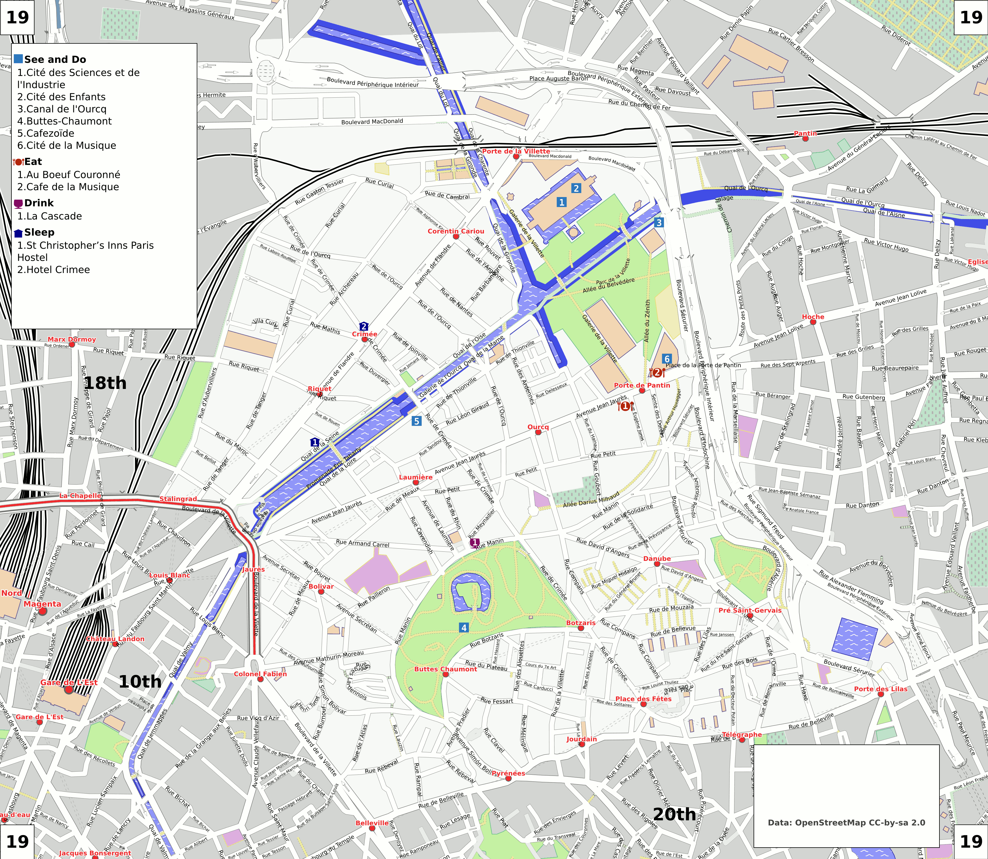 Paris 19th arrondissement map with listings.